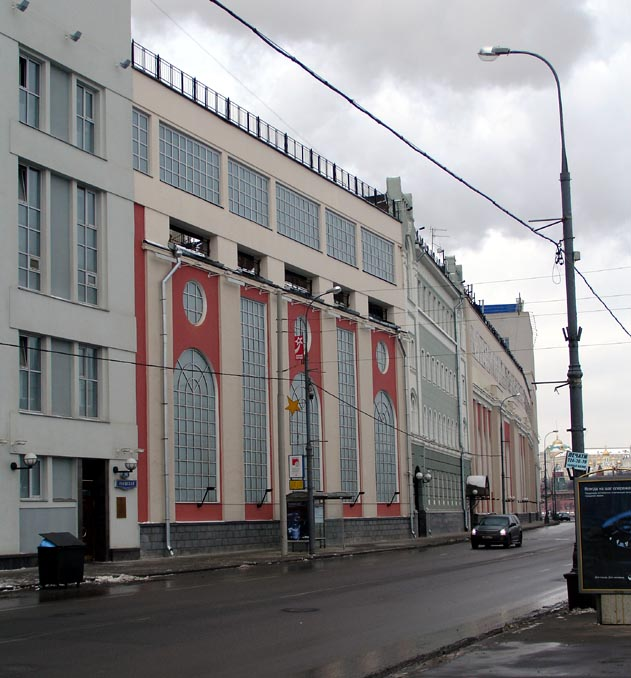 First Powerplant, Moscow. Zholtovsky Additions